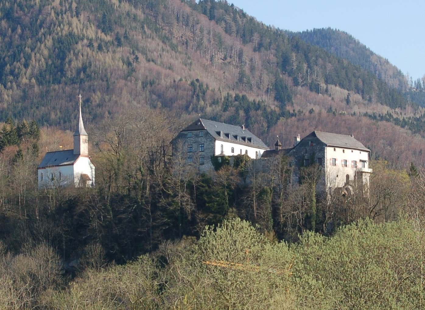 Marquartstein Castle, view from north-west